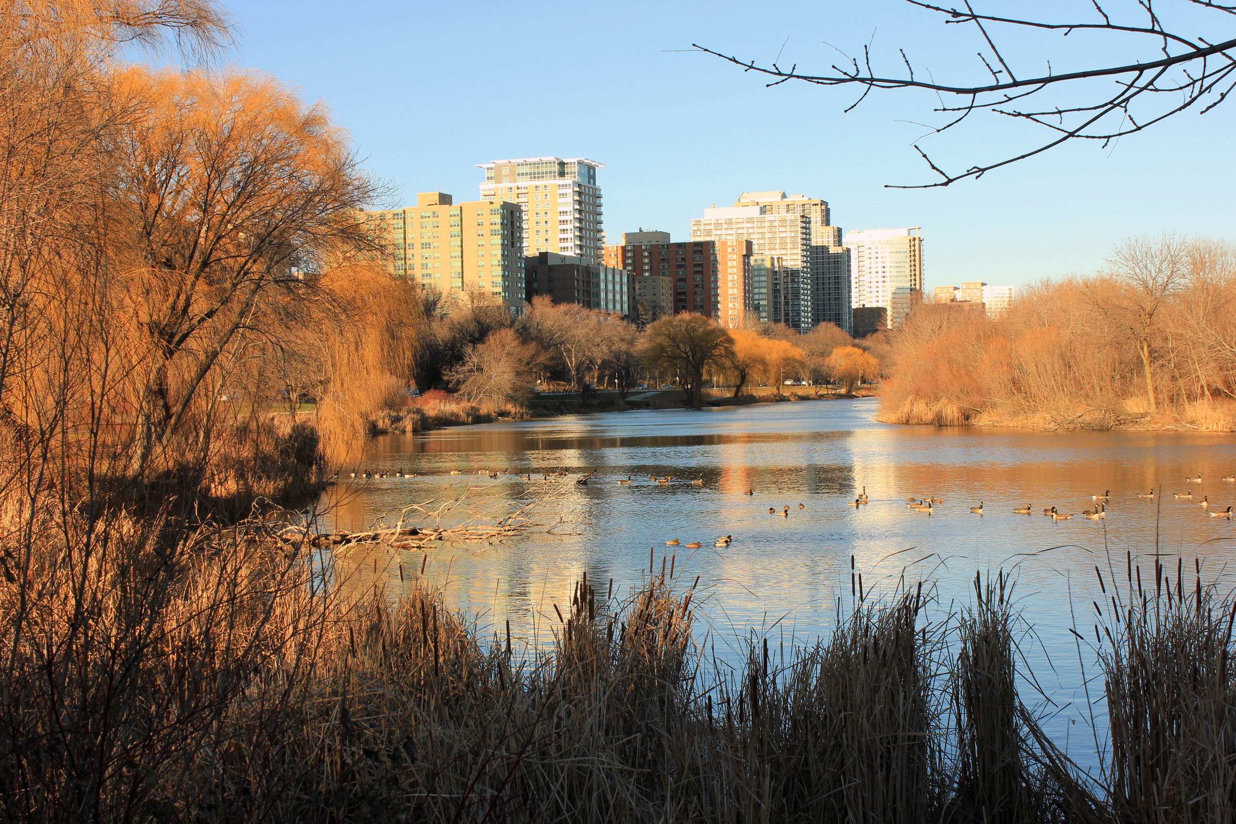 Pictures from Milwaukee, from Lake Michigan to other structures and sights in the city. A small pond by Lake Michigan